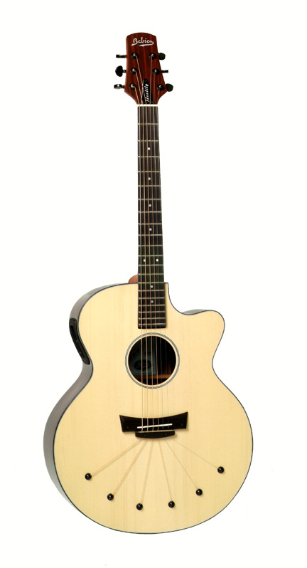 Babicz Jumbo Cutaway Rosewood